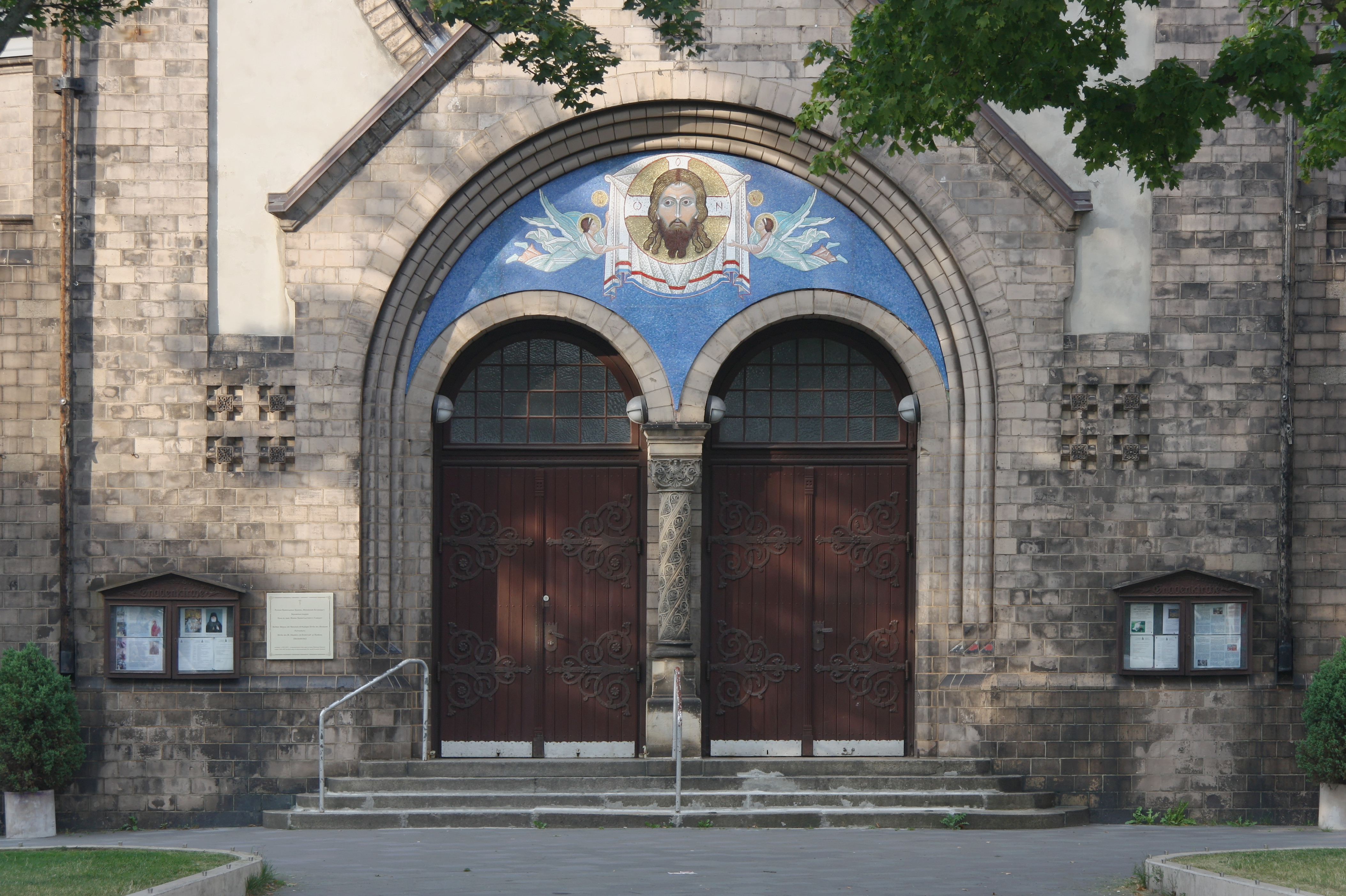 Orthodox church of St. John of Kronstadt in Hamburg-St.Pauli, entrance